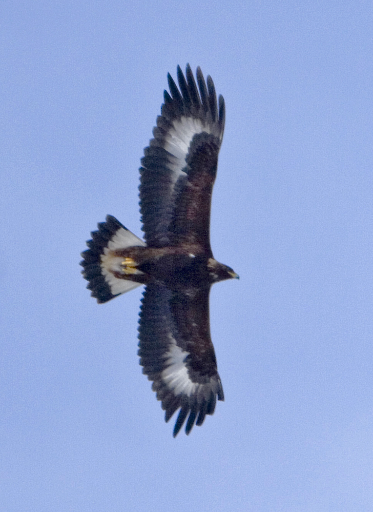 Golden Eagle (Aquila chrysaetos) in Flight - aged around first winter